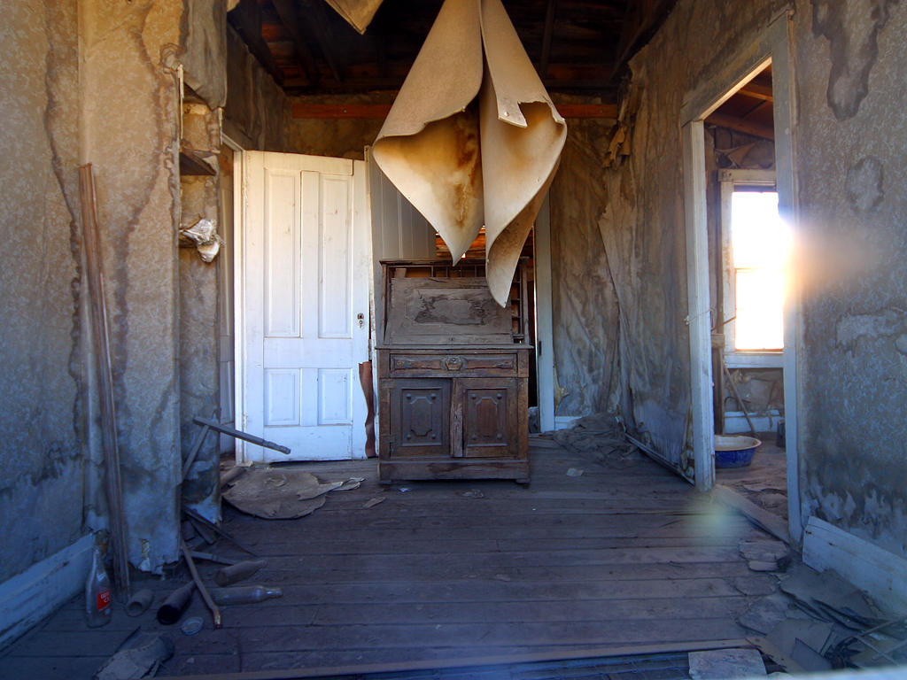 Inside a building at Bodie, California, taken 2004-09-06, from [1].